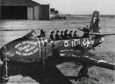 A North American FJ-1 Fury fighter of the Oakland Naval Air Reserve used to promote enlistment in the U.S. Naval Air Reserve.